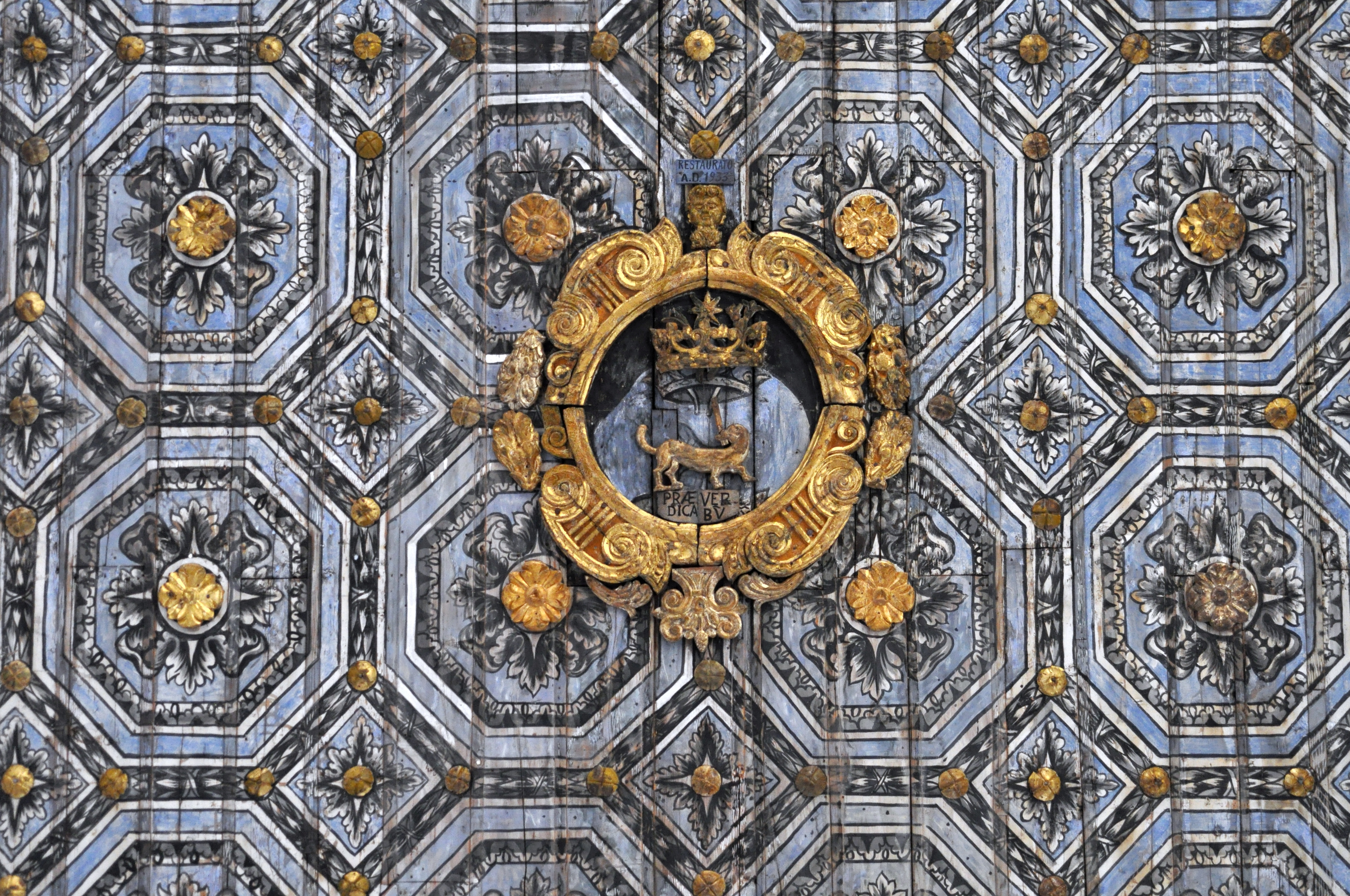 coat of arms of dominican order